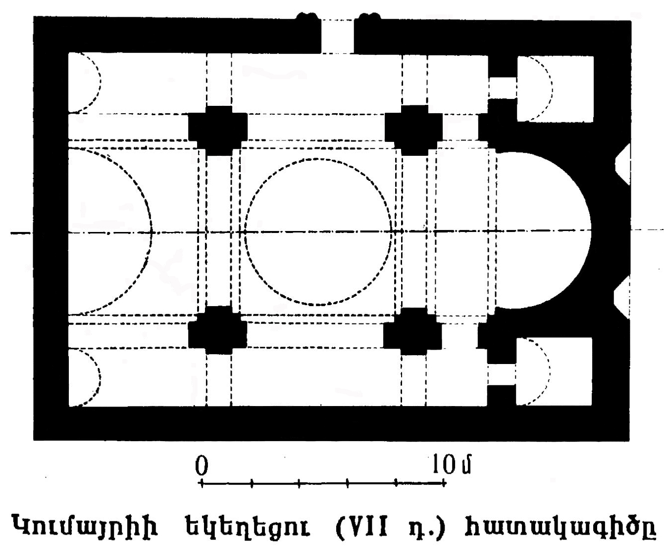 Plan of Kumayri basilica church. (This file got from "Soviet Armenian Encyclopedia" with "Creative Commons BY-SA 3.0" License.)